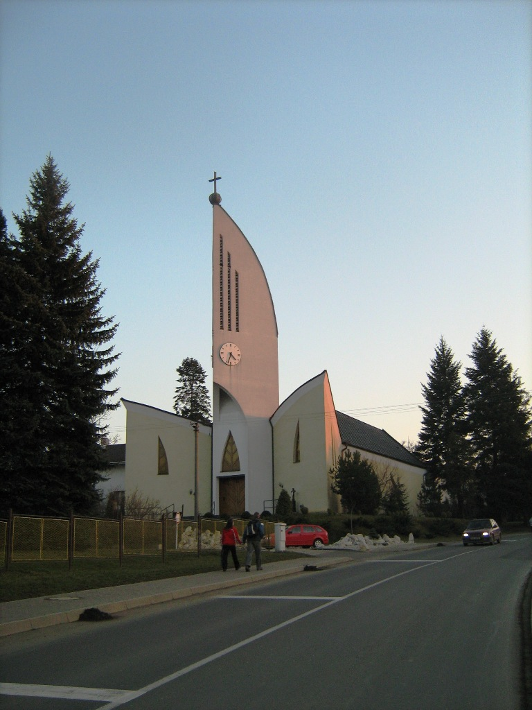 Church of St Anthony of Padua in Vřesina, Ostrava-City District